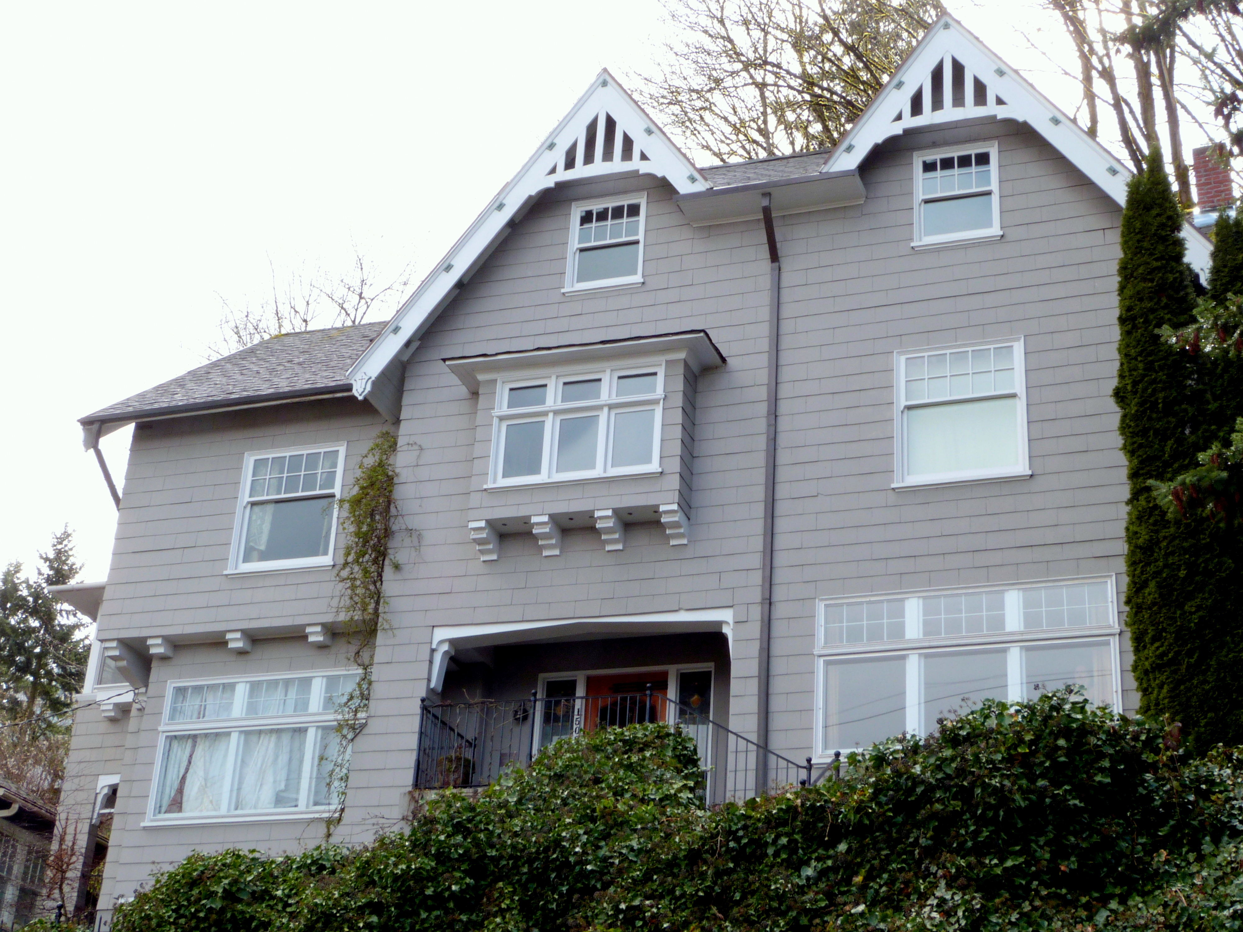 The historic Josef Jacobberger House (built 1906), located at 1502 Southwest Upper Hall Street in Portland, Oregon, United States, is listed on the US National Register of Historic Places.